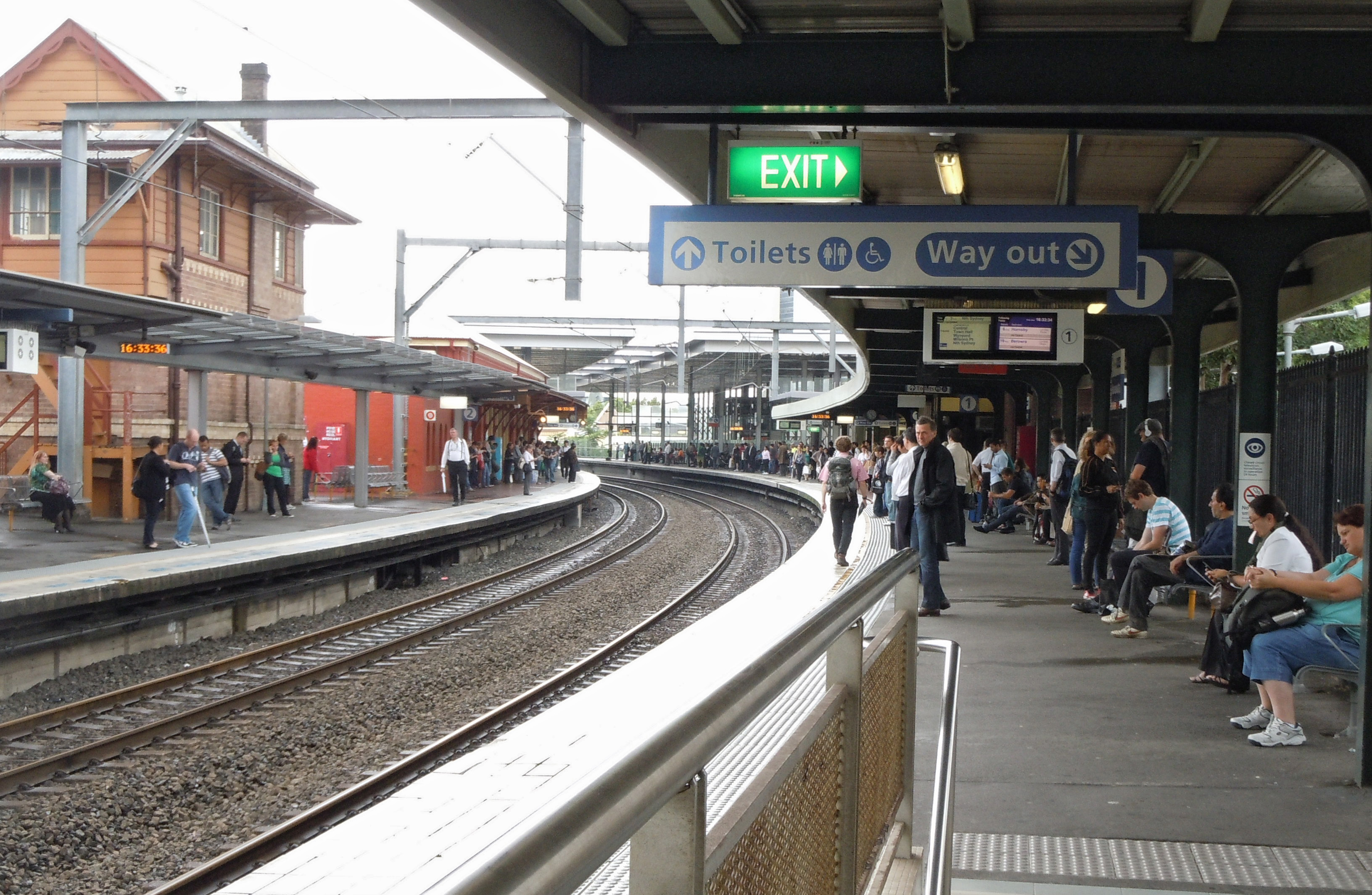 Parramatta station at the start of the afternoon peak. Commuters on platform 1 are waiting for a service towards the city.